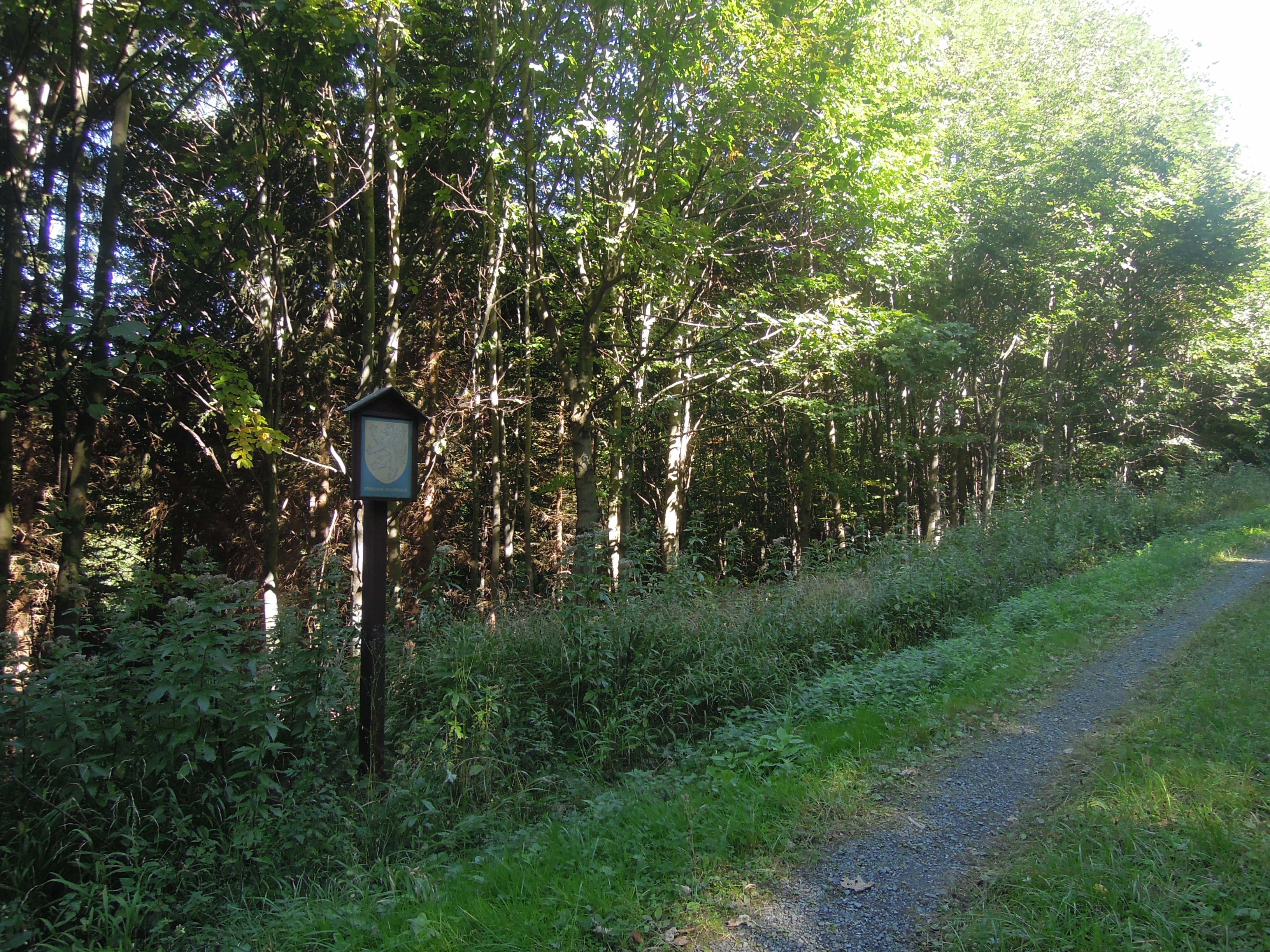 Nature reserve Halvovský potok near Vsetín, Vsetín District, Zlín Region, Czech Republic